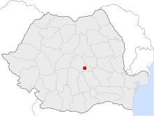 Location of Brașov in Romania.